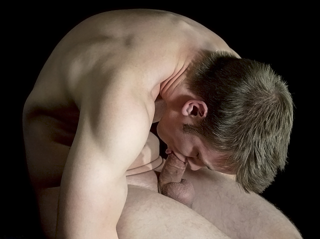 A man performing autofellatio.